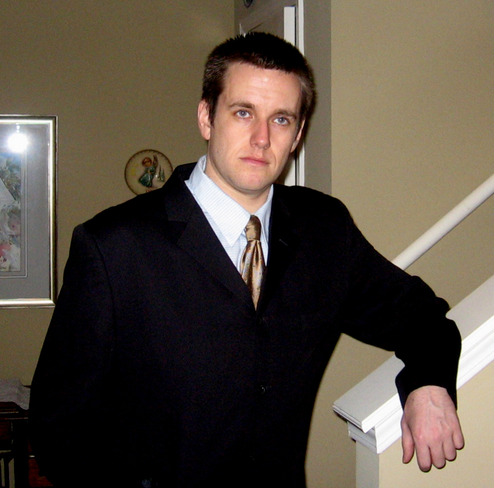 Promotional photo for Barry Donegan for City Council